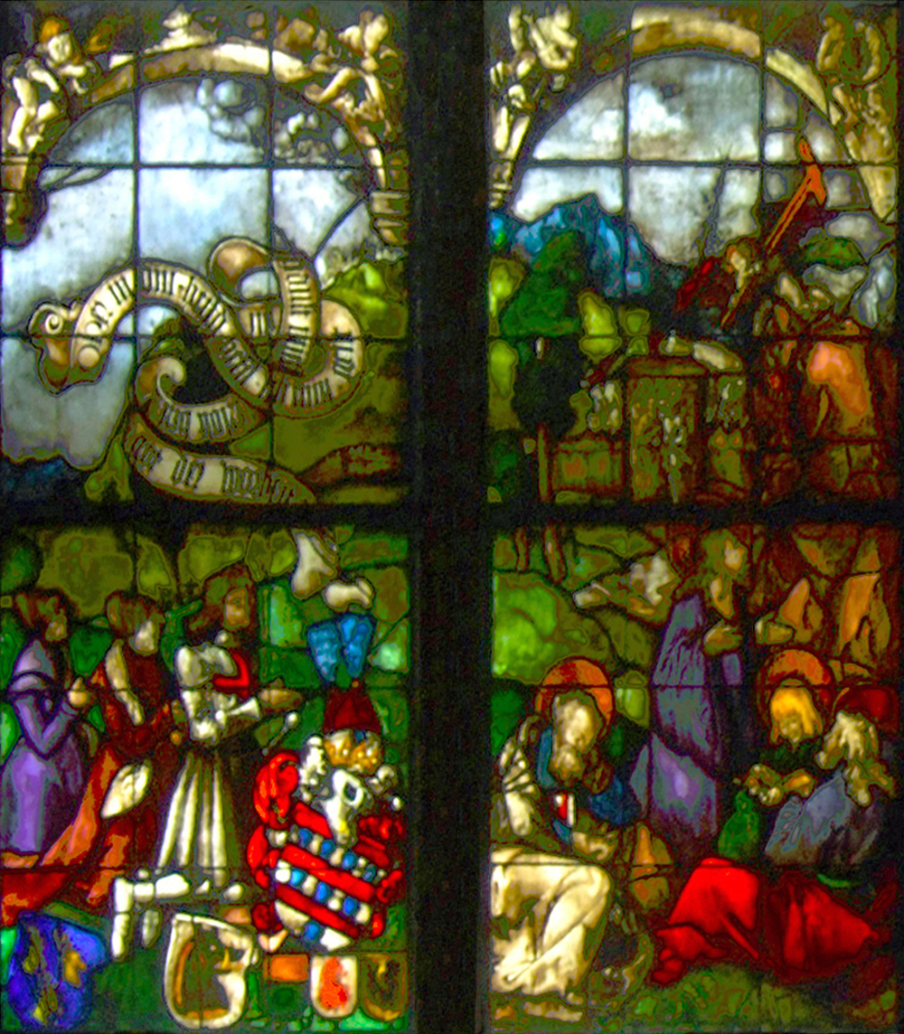 These stained glass windows from the western side of the Blumeneck Family Chapel in the Freiburg Minster date to 1882-83 and were made in the Freiburg workshop of Heinrich Helmle (1829-1909) and Albert Merzweiler (1844-1906) with the assistance of the stained glass artist Eugen Börner and the painter Hugo Huber. They are copies of the original panes which are now in the Augustinermuseum of Freiburg and were presumably designed ca. 1517 by Hans Baldung Grien. In the left-hand panel, the donor Sebastian von Blumeneck (sometimes spelled Blumneck) kneels with his two wives Apollonia, née von Breisach, and Beatrix, née Beschelt. Before him is his family coat of arms, topped with a bishop's mitre and a fan of feathers as a helm crest. Alongside it are the two coats of arms of his wives. Blumeneck was mayor of Freiburg several times, and therefore bears on the breast of his tunic a red cross, the shield of Freiburg. The three figures are portrayed before a pale green hill that merges with the fenced garden of Gethsemane with the Agony of Christ depicted on the right-hand panel. Above the donors, Psalm 31:5 appears in a banderole: "O Lord, into Thine hand I commit my spirit: Thou hast redeemed me, o Lord God of truth." In the right-hand panel, Christ kneels before a brown rock at the picture's edge, his hands stretched forward pleadingly. Above him hovers the chalice, the symbol of his impending sacrificial death. The disciples Peter, John, and James, clothed in brilliantly colored garments, are sitting before him asleep. The traitor Judas Iscariot, holding a bag of silver coins, enters with Roman soldiers through the garden gate in the background.